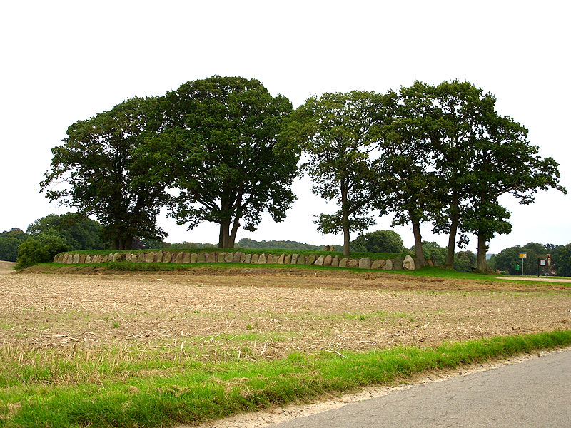 Karlsminde Langbett